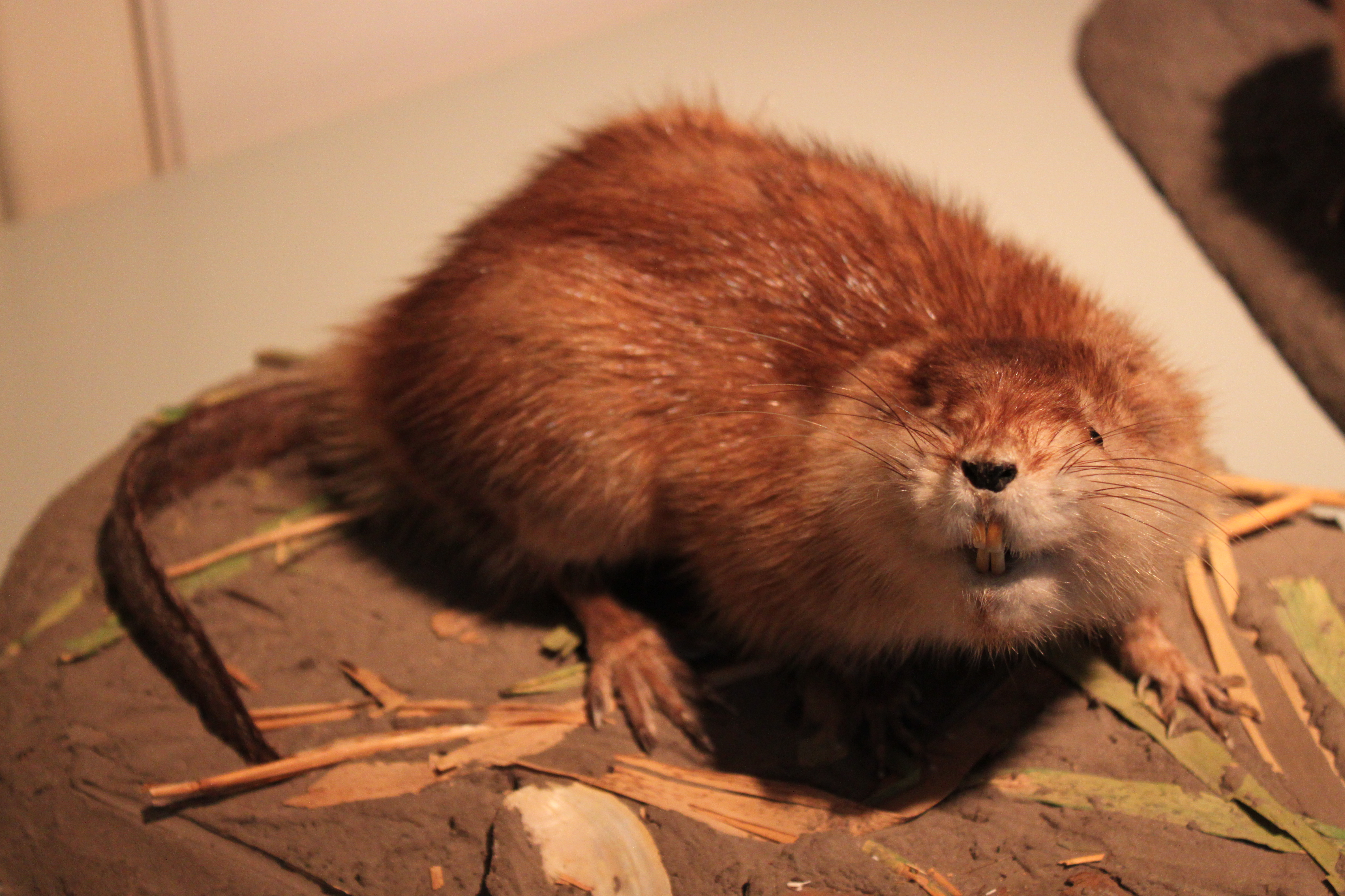 Bisam (Ondatra zibethicus) Museumsberg Flensburg Native nameMuseumsberg FlensburgLocationFlensburgCoordinates54° 47′ 08.52″ N, 9° 25′ 53.69″ E Established1876Web page control : Q1954806 VIAF: 153292417 LCCN: nb2009027482 GND: 2166186-8 SUDOC: 07759679X WorldCat institution QS:P195,Q1954806